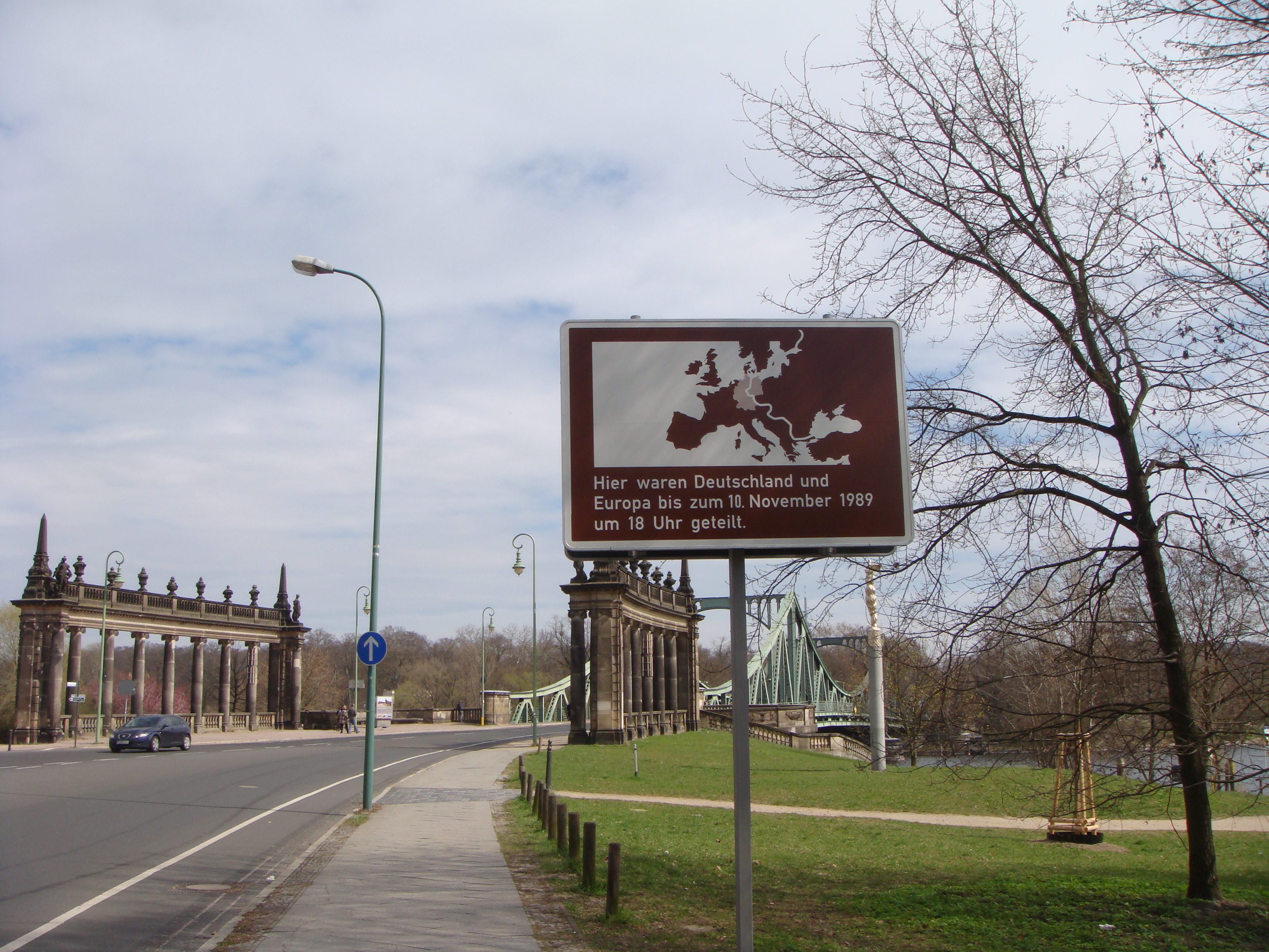 View to Glienicke Bridge from Potsdam’s side